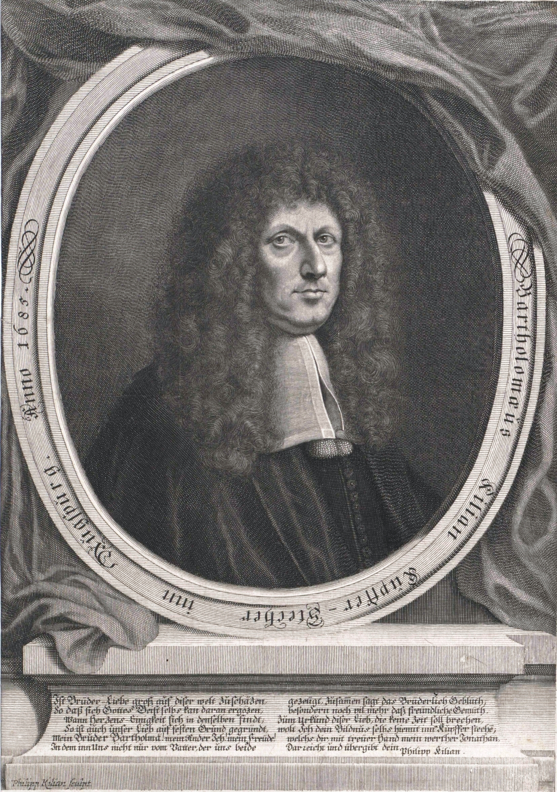 Bartholomäus Kilian (1630–1696)